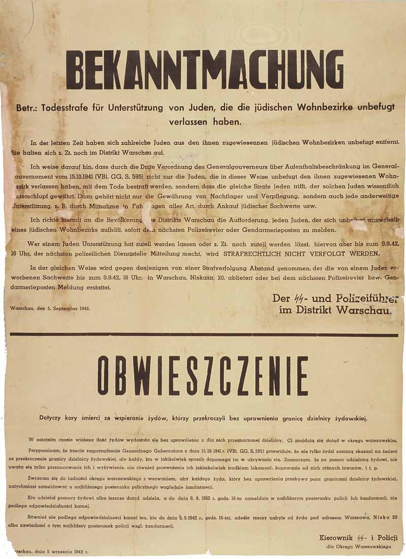 German poster announcing officially the death penalty to every Pole who assists Jews, it reads: GENERAL NOTICE W.r.t.: Capital punishment for support to Jews, who have left the jewish settlement without authorisation. Of late numerous Jews have departed from the designated Jewish living district. They are as yet delayed in the District of Warsaw. I point your attention thereto, that by the third Decree of the Governor General concerning settlement allocation of the General Government (VBl. GG. S. 595) of 15.10.1941, not only the Jews who in this way, departed unauthorised from their allocated living district, will receive capital punishment, but that the same punishment awaits those, who knowingly aid such Jews by harbouring them. Hereby is not only included the furnishing of overnight facilities and health care, but also any additional assistance, for instance transportation in a vehicle of any sort, purchasing of Jewish business interests, and so forth. I hereby appeal to the residents of the District of Warsaw, with respect to any Jews, who are residing outside the designated Jewish living areas, to be immediately reported to the nearest police station or constabulary post. Those who participated in assisting Jews, or who at this time are assisting Jews, who from this point however to 9.9.42 at 16 hours, inform the nearest police service station, will NOT BE LEGALLY PROSECUTED. In the same way, punitive prosecution will not proceed against those, who from this point to 9.9.42 at 16 hours, deliver or report valuables purchased from Jews at Niska Street 20, Warsaw, or submit a declaration to the nearest police station or constabulary post. Warsaw, 5th September, 1942. The SS- and Police-führer of the District of Warsaw